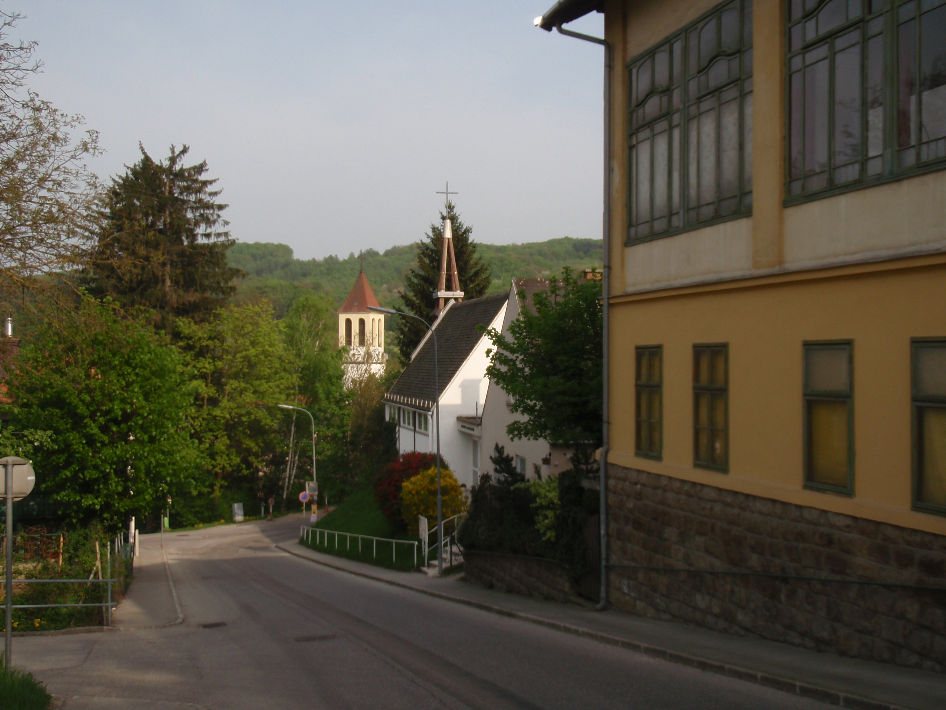 View form the railway-station to the center of Eichgraben. To the right the Art Nouveau Ballroom, in the middle the Lutheran Chapel, in the distance the steeple of the big Roman Catholic Church, named "Wienerwalddom" (Duomo of the Vienna Woods).